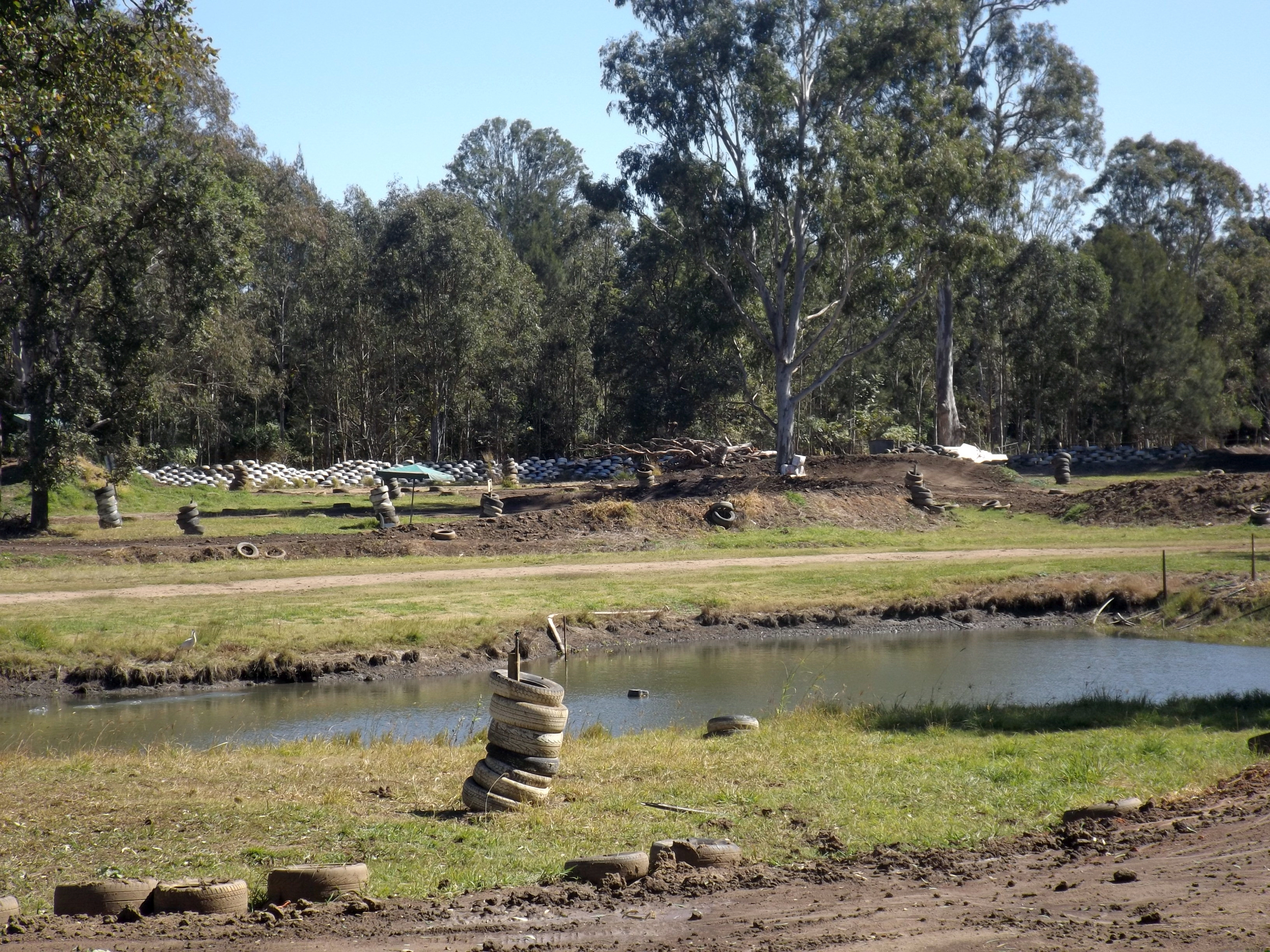 Photo of the Kilcoy Motorcycle Club at Glenfern, Somerset Region, Queensland, Australia.